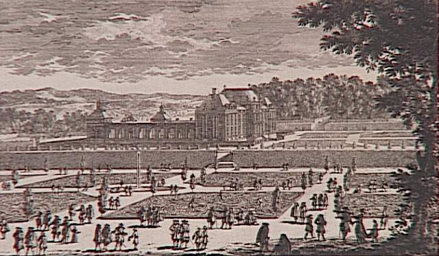 Destroyed castle of Le Raincy, Seine-Saint-Denis, France. Drawing from XVIIe century.